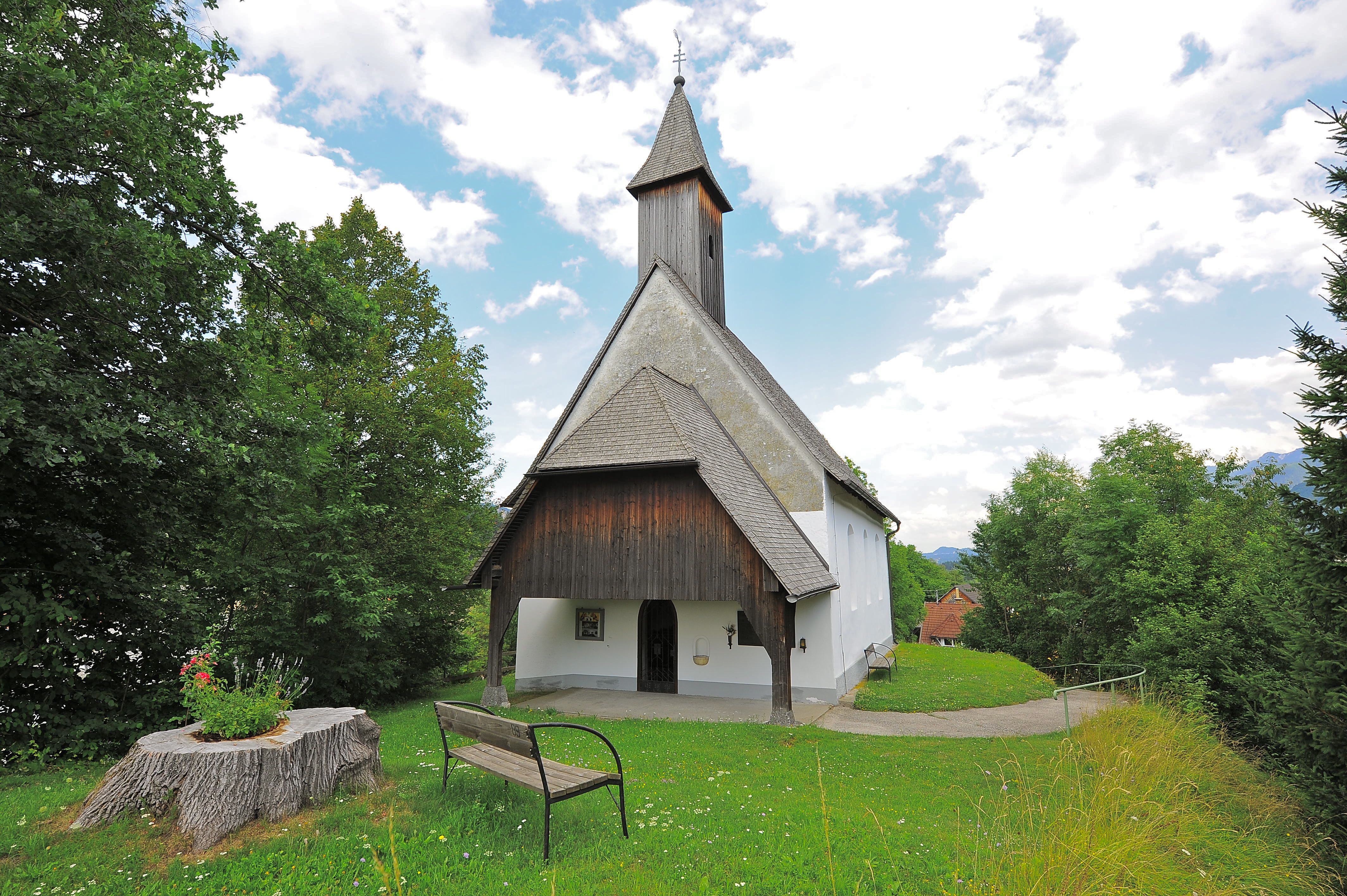 Subsidiary church Saint Ruprecht and cemetery at Poeckau, municipality Arnoldstein, district Villach Land, Carinthia / Austria / EU